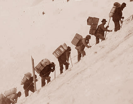 Klondikers, Chilkoot Pass, 1898